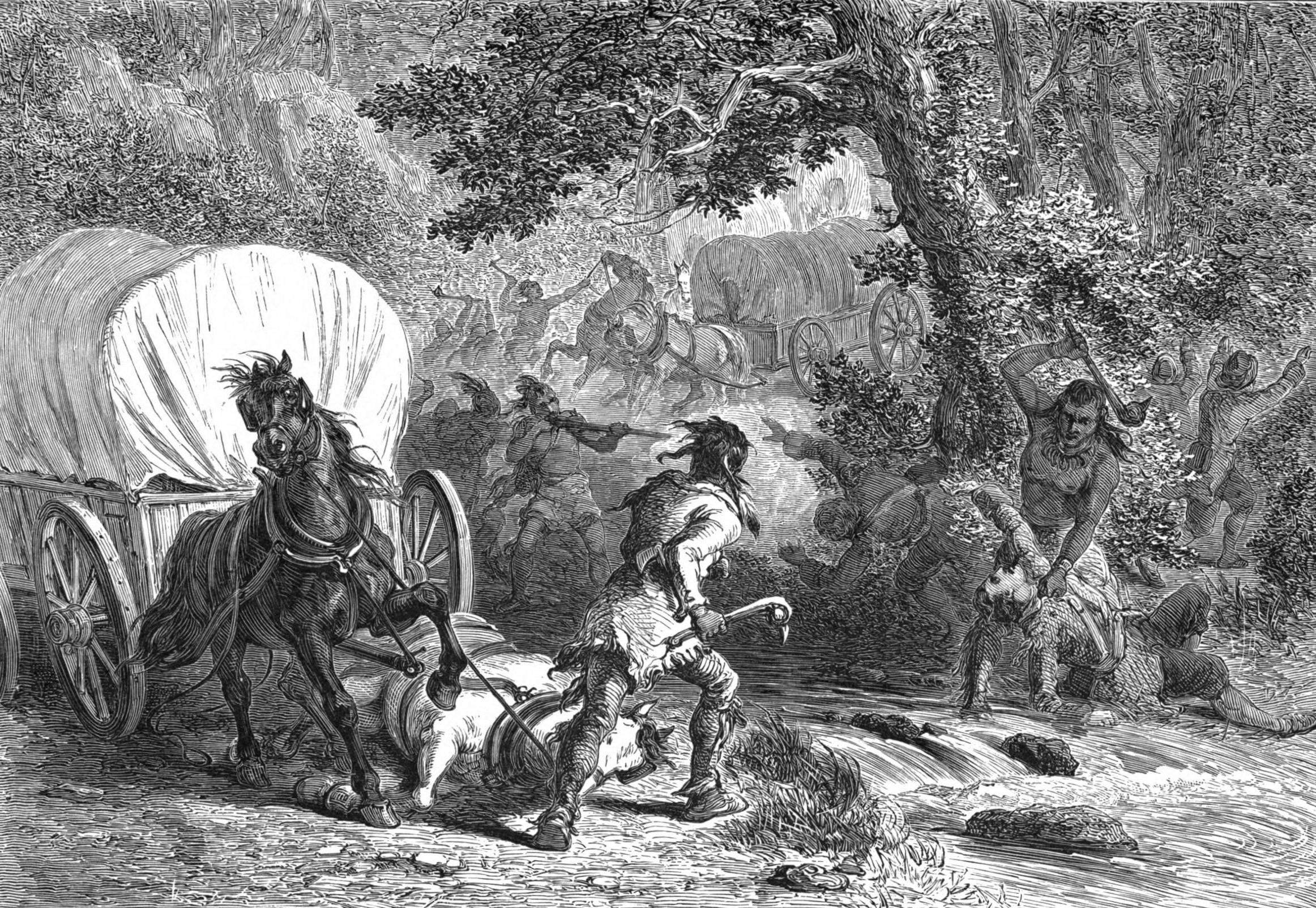 A depiction of the Battle of Bloody Brook in King Philip's War.